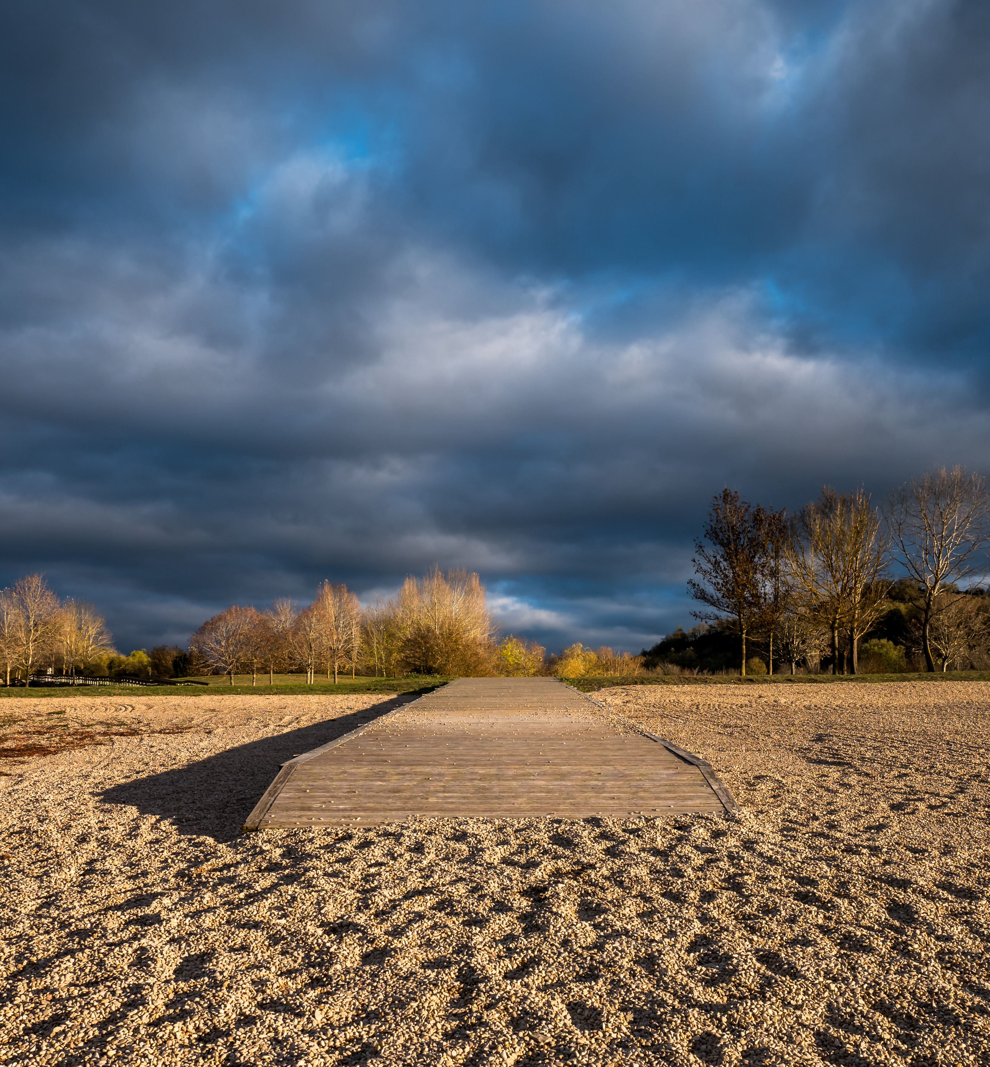 Access to Garaio beach, Ullíbarri-Gamboa reservoir. Álava, Basque Country, Spain